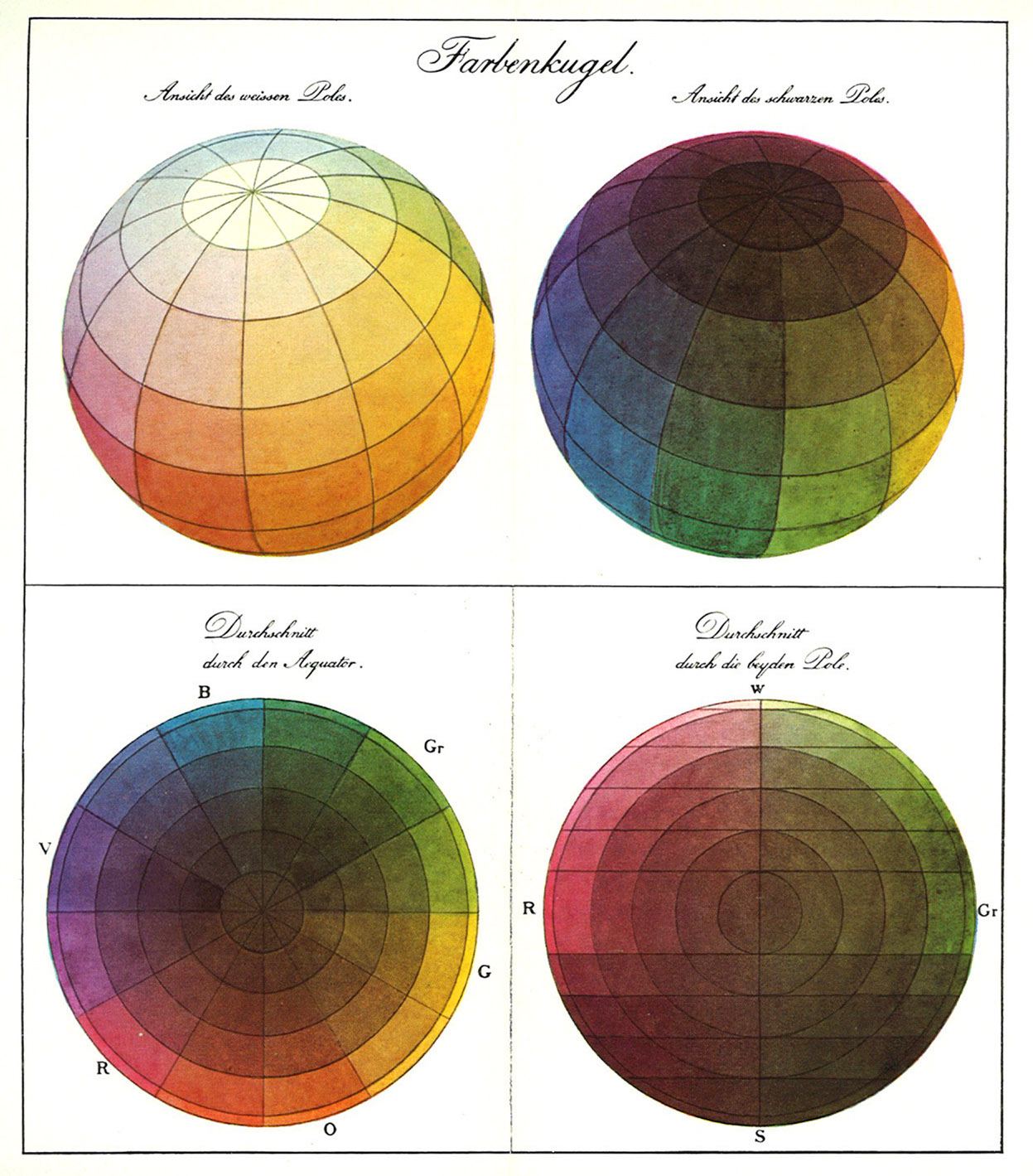 Philipp Otto Runge’s Color Sphere (Die Farbenkugel). The top two images show the surface of the sphere, while the bottom two show horizontal and vertical cross sections. Taken from "Ansicht" is "Perspective"; "Durchschnitt" is "Cut-out". Hues labeled R, O, G, Gr, B, V are red, orange, yellow (Gelb), green, blue, violet. Note:There are mathematical issues with this depiction. For instance, if one calls the concentric rings of the bottom right image "chroma" (counting from the center outward) and the horizontal stripes (counting from the bottom to the top) of the bottom right image "lightness", then it is not possible to specify a color whose "chroma" is 2 and whose "lightness" is 9. This means that each color cannot be uniquely identified by a single set of "hue", "lightness" and "chroma" values.